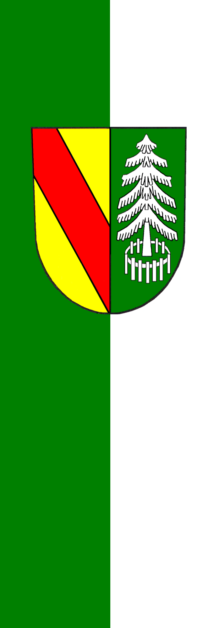 Flag of the village Gundelfingen in Breisgau, Germany